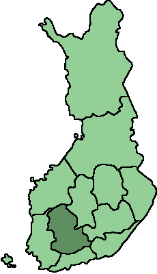 The Finnish province of Häme (Hämeen lääni) as of 1997